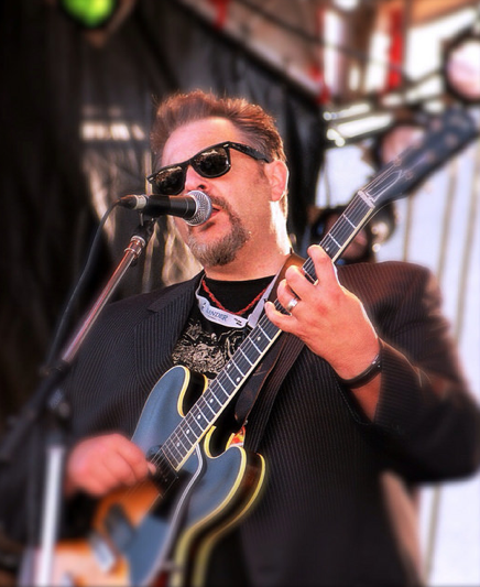 Shortly before recording the CD Still Blue, here's a shot of Bill playing his 1960 Gibson ES-330.